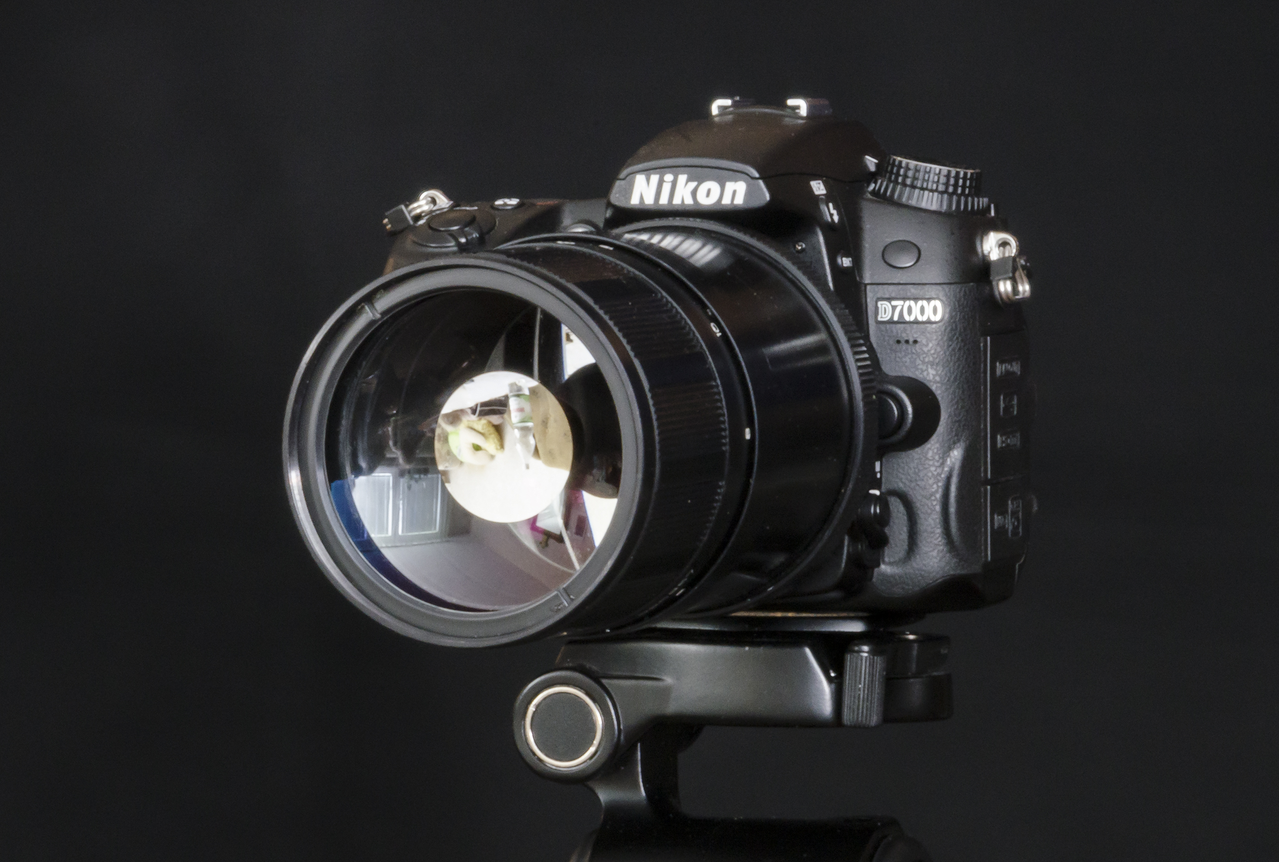 Nikon D7000 with MC 3M-5CA mirror lense